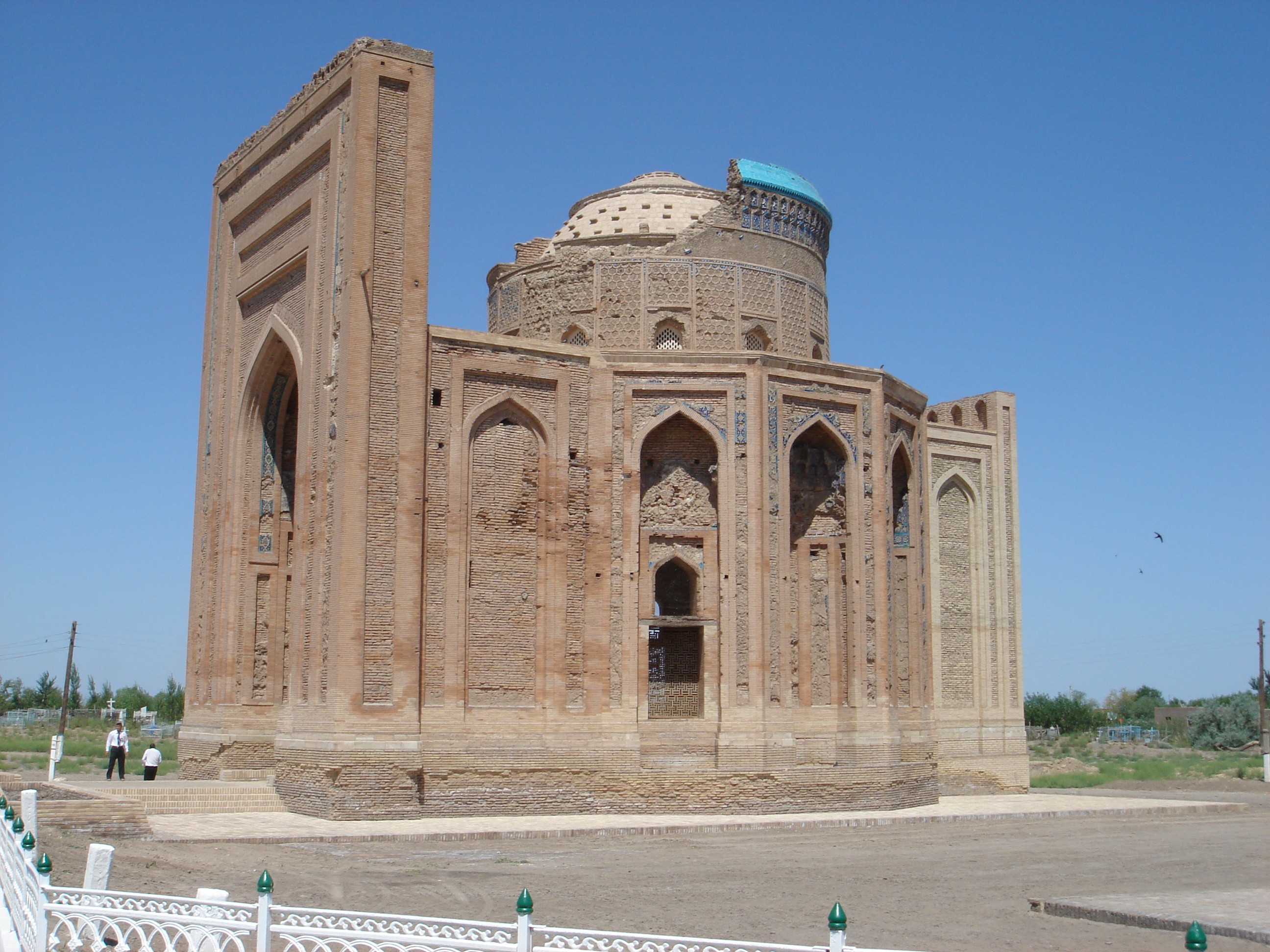 Turabek Khanum Mausoleum, view from the south